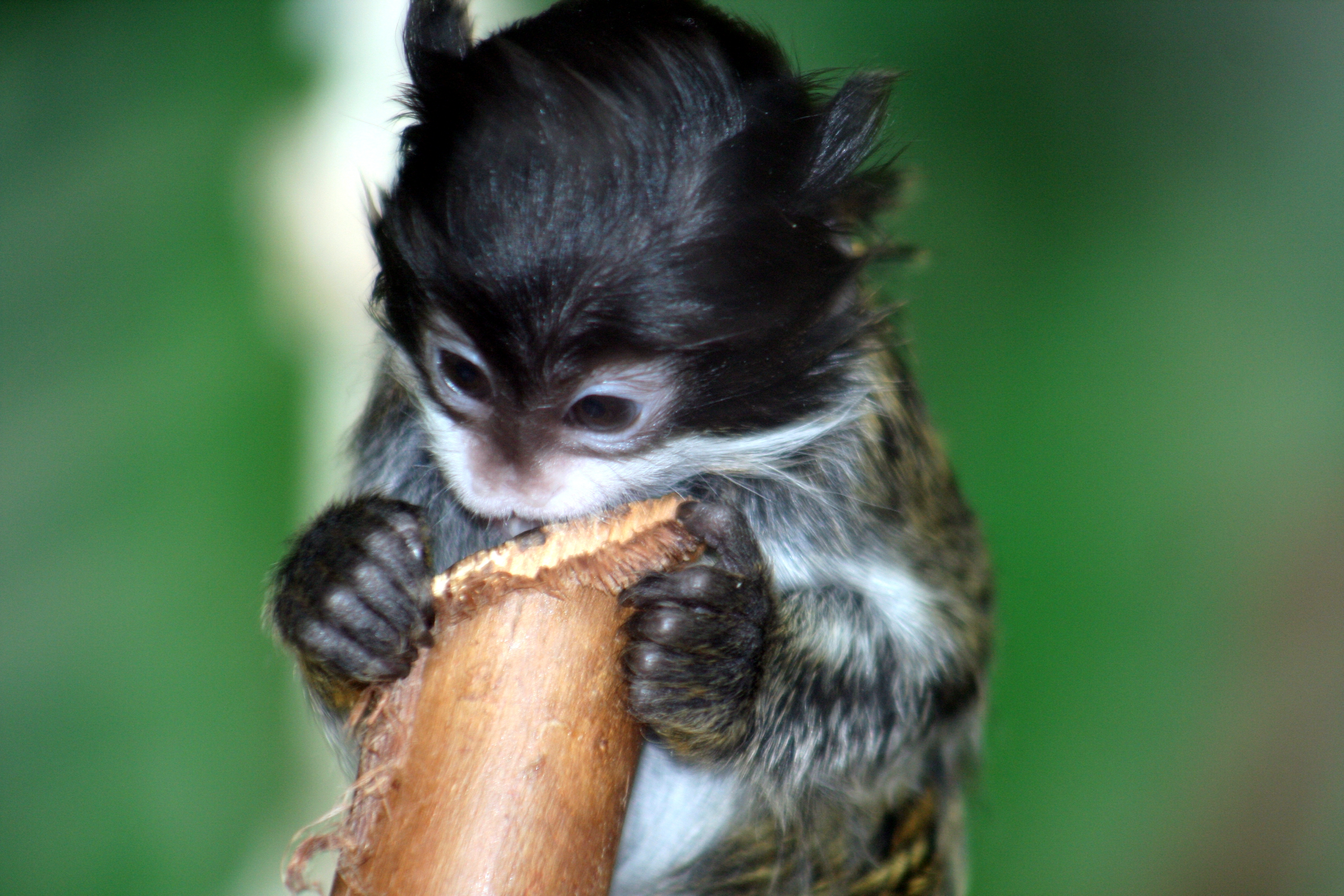 2 months old babyEmperor Tamarin